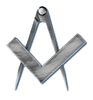 Square and Compasses - symbol of Freemasonry (transparent background).